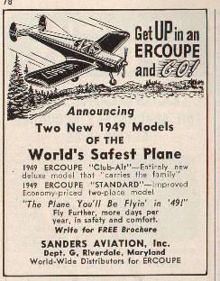 Many small airplane manufacturers fell on hard times when the expected boom in post-war light aircraft sales did not materialize. This small 1/9th page ad appeared on page 78 of the April 1949 issue of Flying magazine. It directed readers to send for a brochure on the new 1949 Ercoupe.